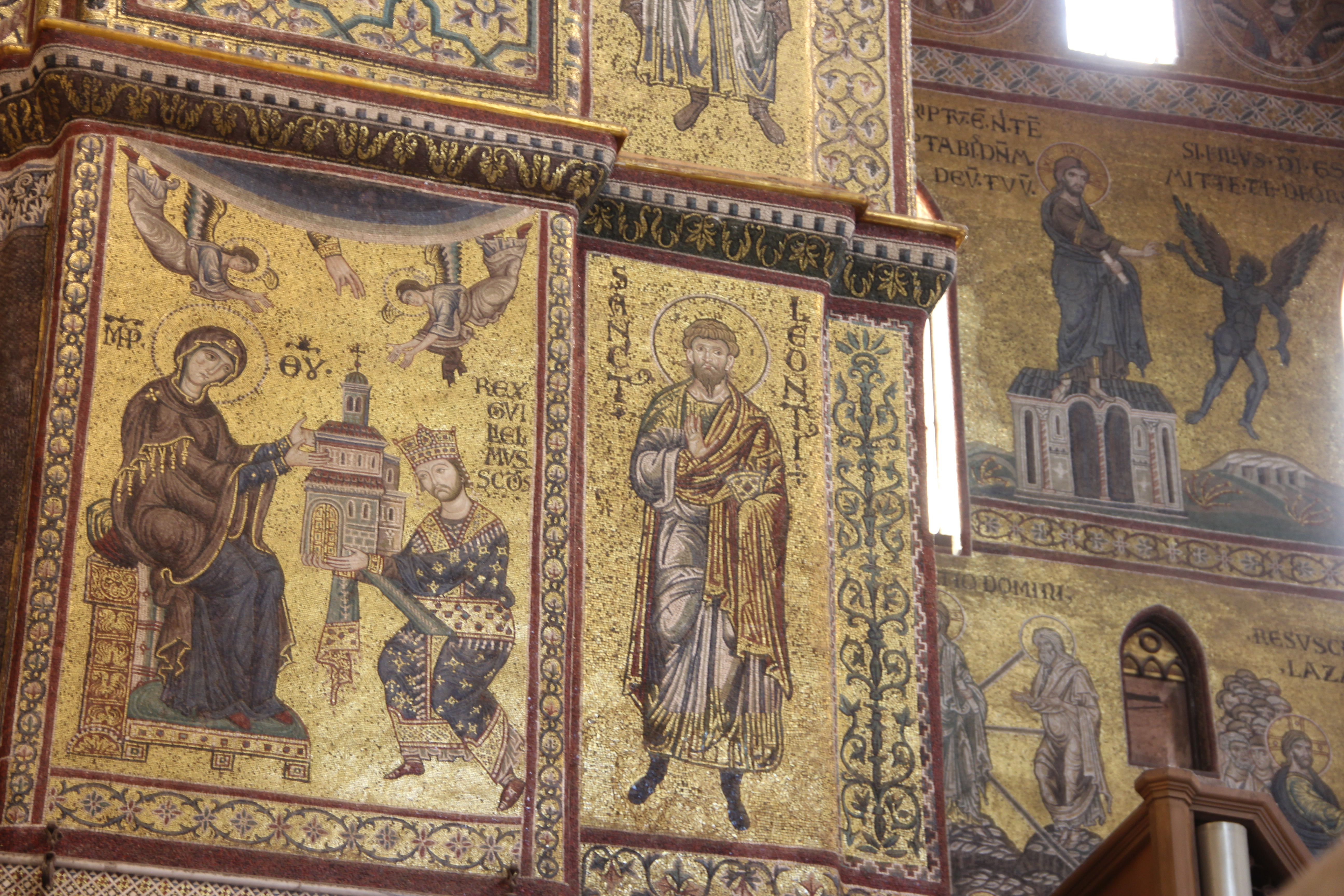 William II of Sicily offers his cathedral to the Virgin Mary.